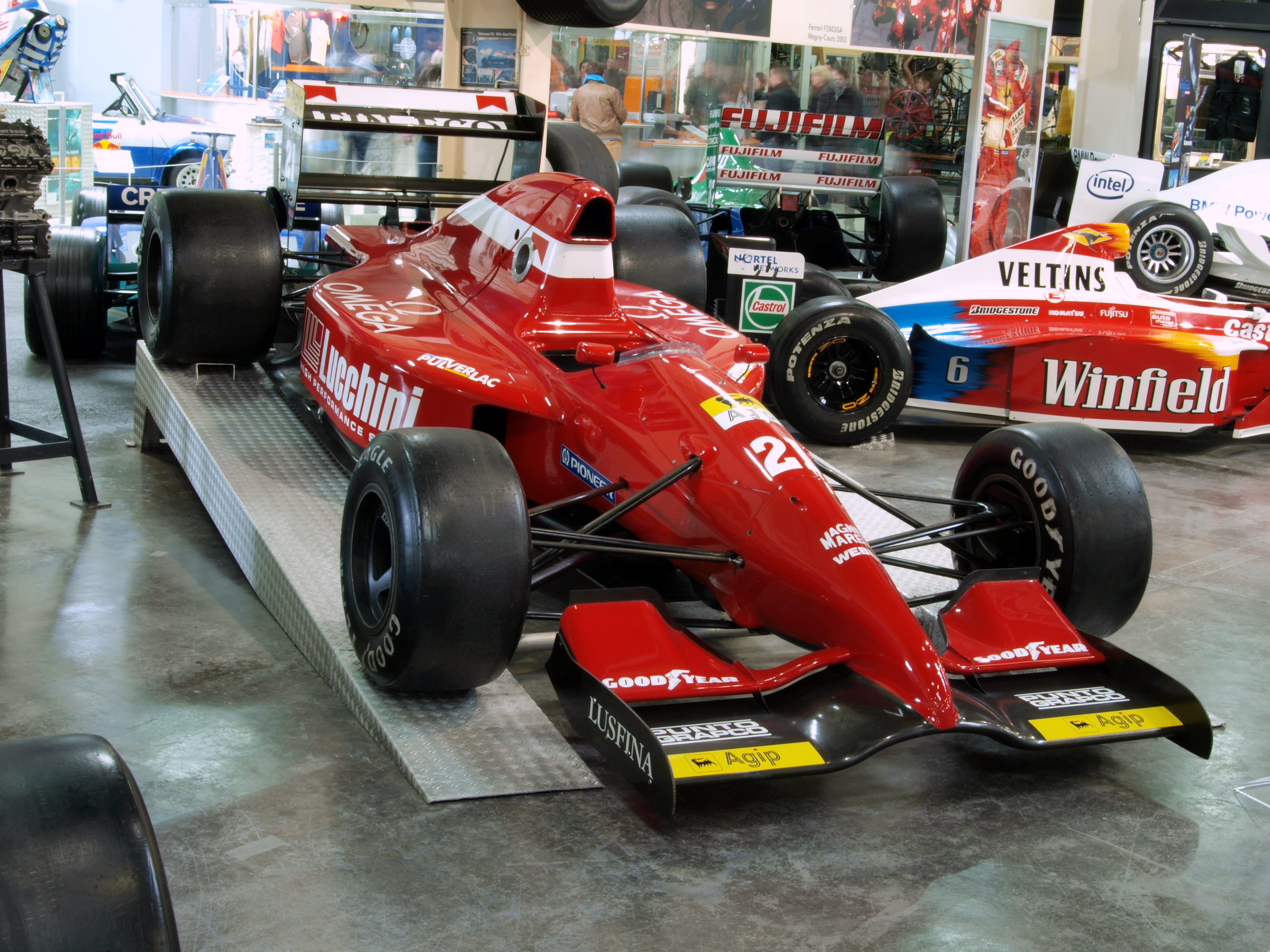 Photographed at the Auto & Technic museum Sinsheim.